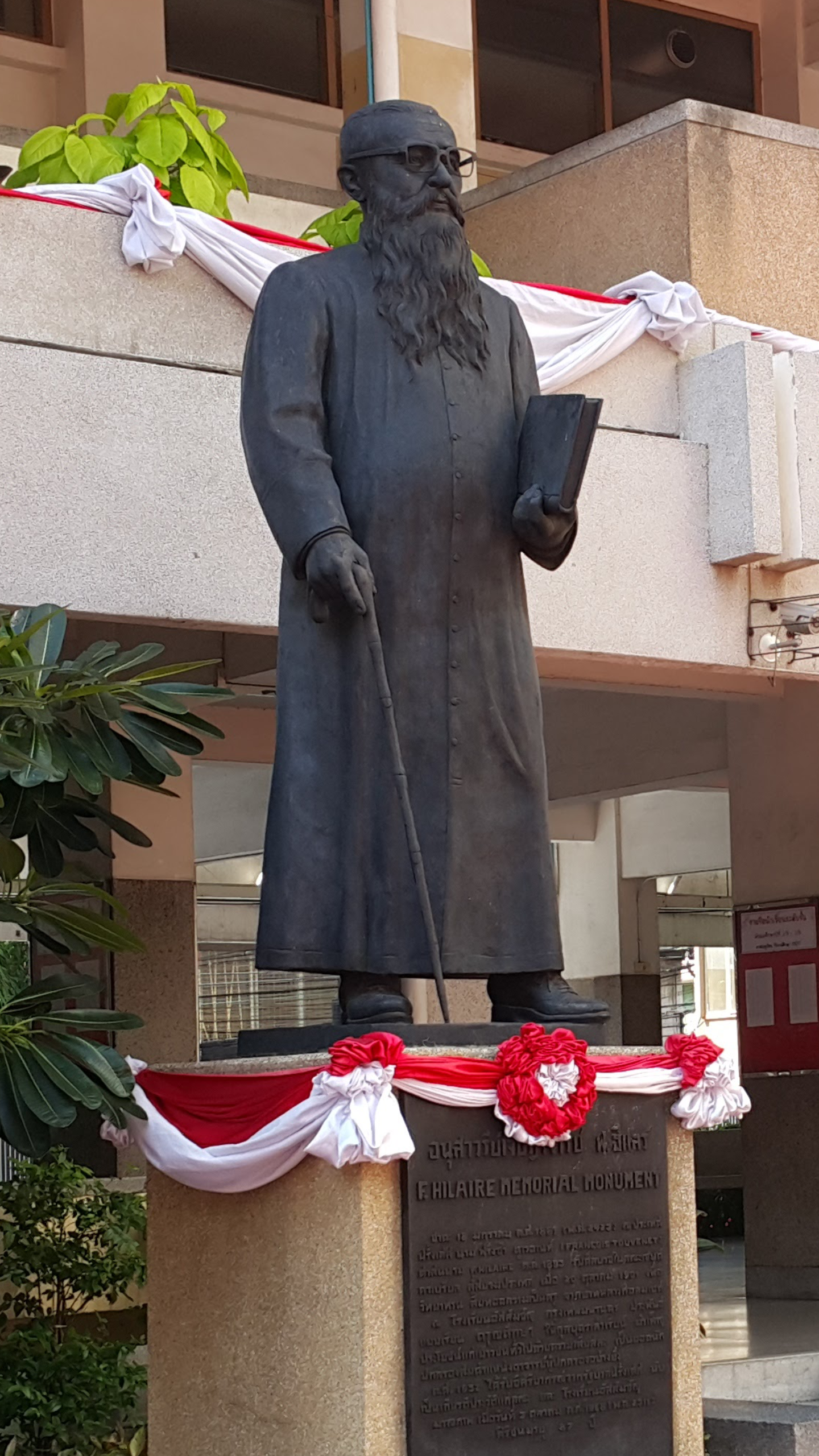 F. Hilaire statue on his memorial day